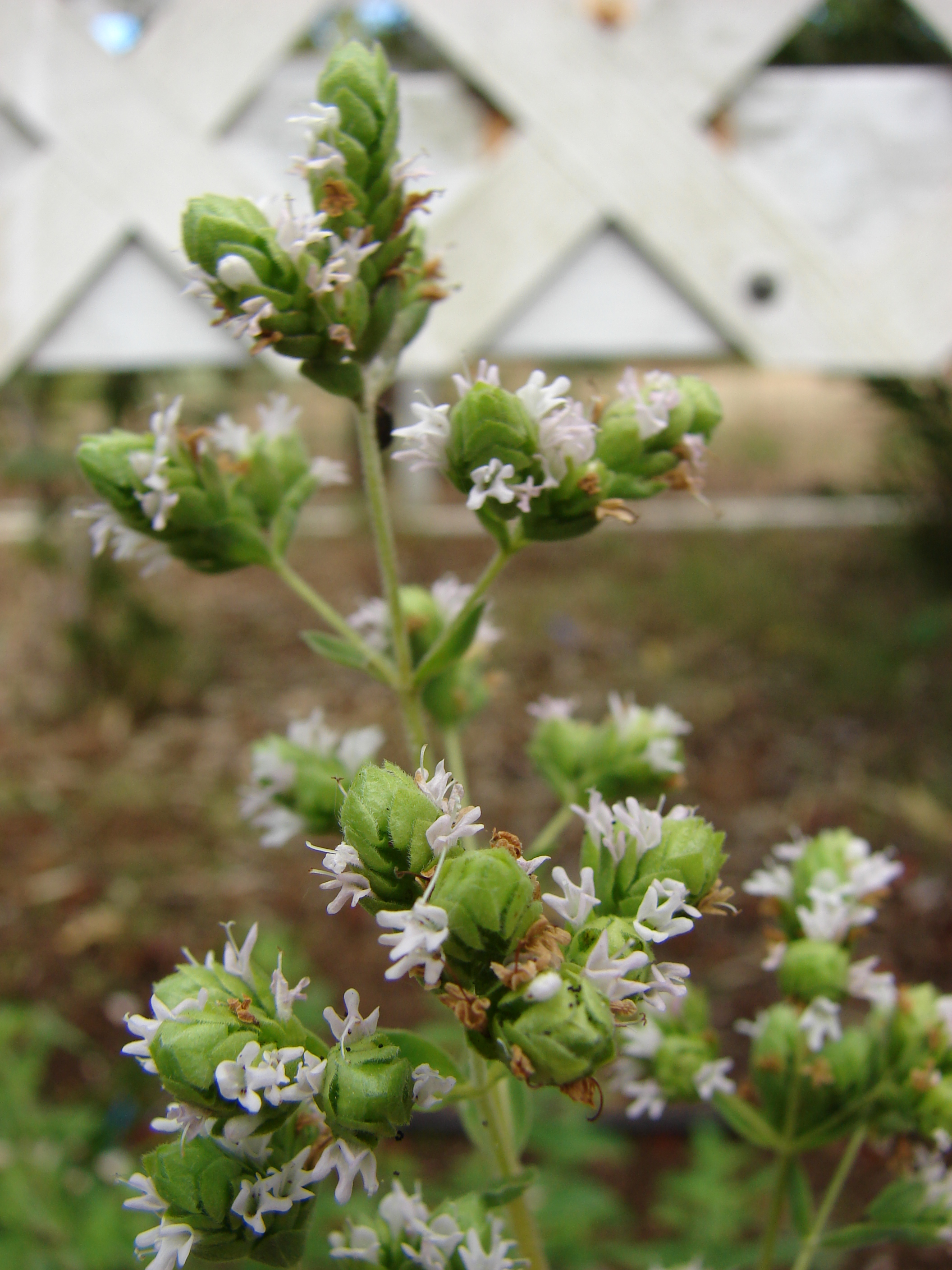 Origanum majorana (flowering habit). Location: Maui, Enchanting Gardens of Kula